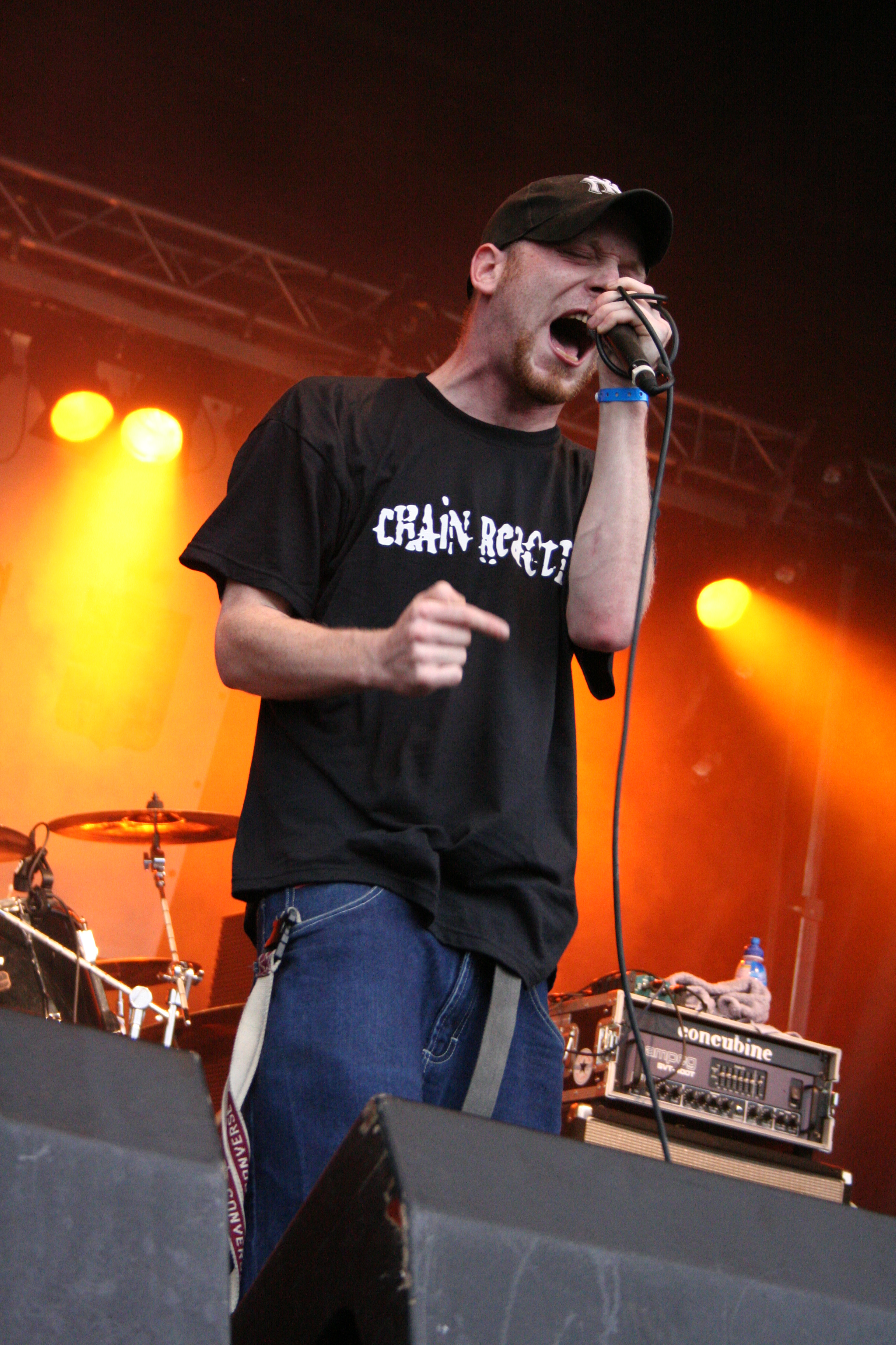 Singer Remco Essers of emocore band Mindfold, from Limburg, at the Parcours in Maastricht, 11 September 2005